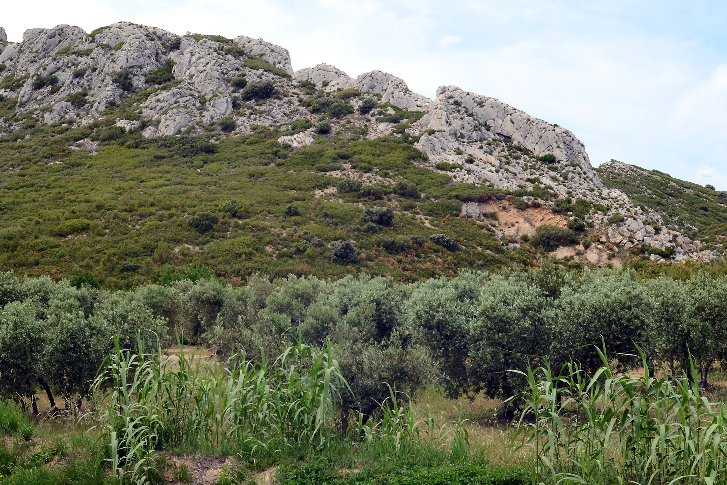 Alpilles